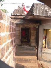 Photograph of the Akhadachandi Temple in Bhubaneswar